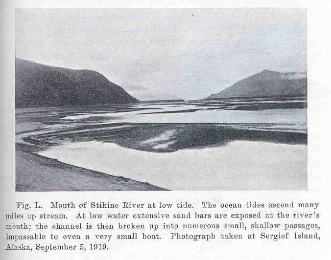 Mouth of Stikine River at Low Tide Subject: Stikine River (BC and Alaska), Rivers--Alaska, Rivers--British Columbia Geographic Subject: United States--Alaska--Stikine River, Canada--British Columbia--Stikine River Tag: Limnology